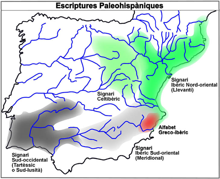 Paleohispanic writing systems map.